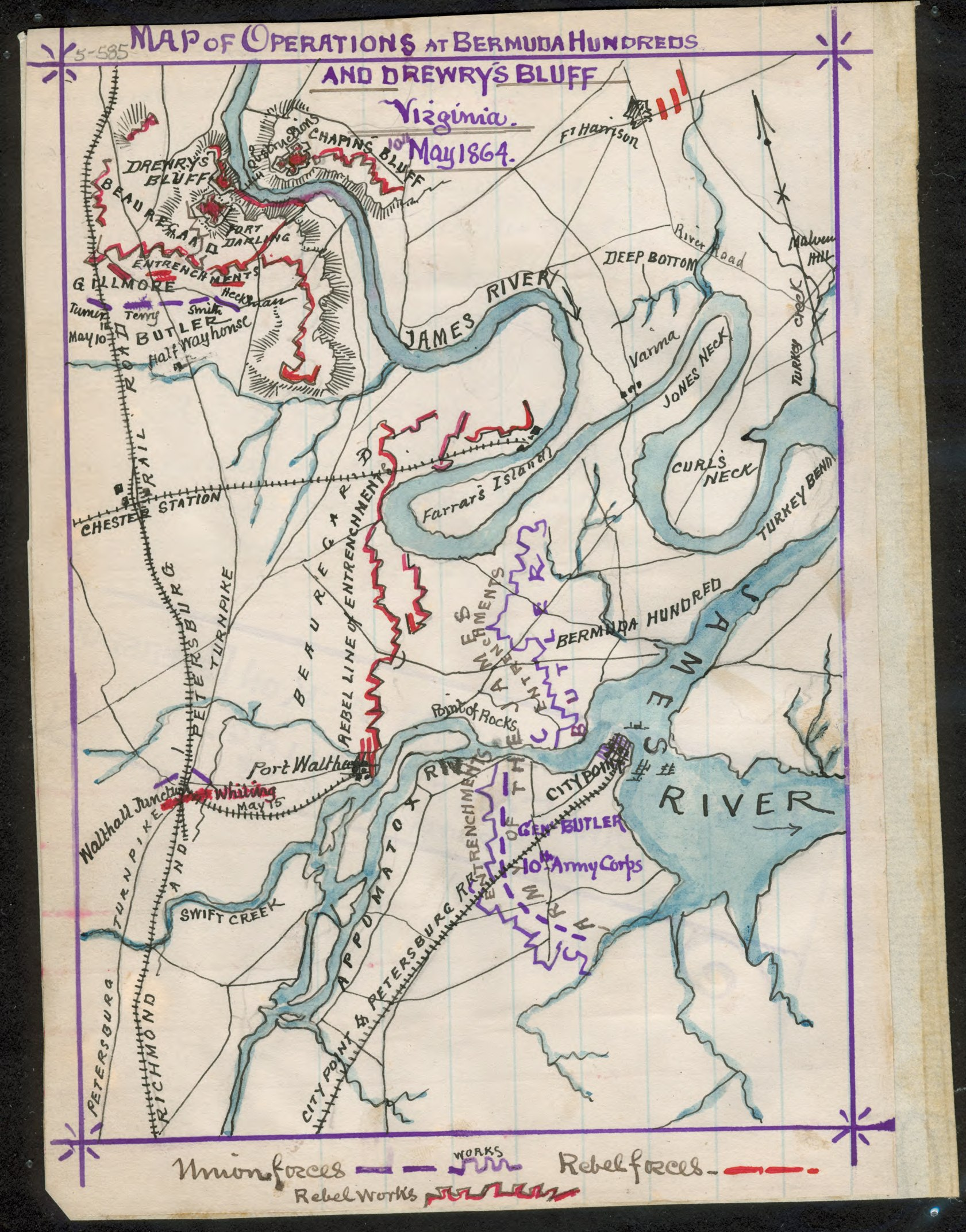 Bermuda Hundred (Virginia) Campaign. The map shows several engagements that took place between Butler's Army of the James and Beauregard's Confederates, May 6th through May 13th, 1864. Includes Port Walthall Junction, Confederate defense of Fort Darling at Drewry's Bluff, Union entrenchments at Bermuda Hundred and City Point. Color coding indicates the location of Union and Confederate forces and fortifications.